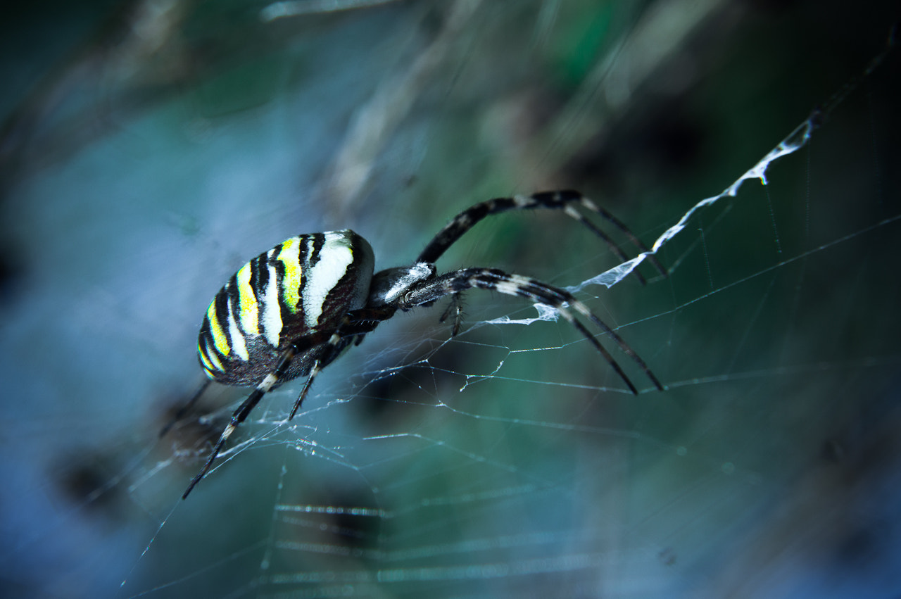 500px provided description: SONY DSC [#nature ,#macro ,#night ,#animals ,#spider ,#web ,#2013 ,#t2875 ,#+4 ,#2013_]